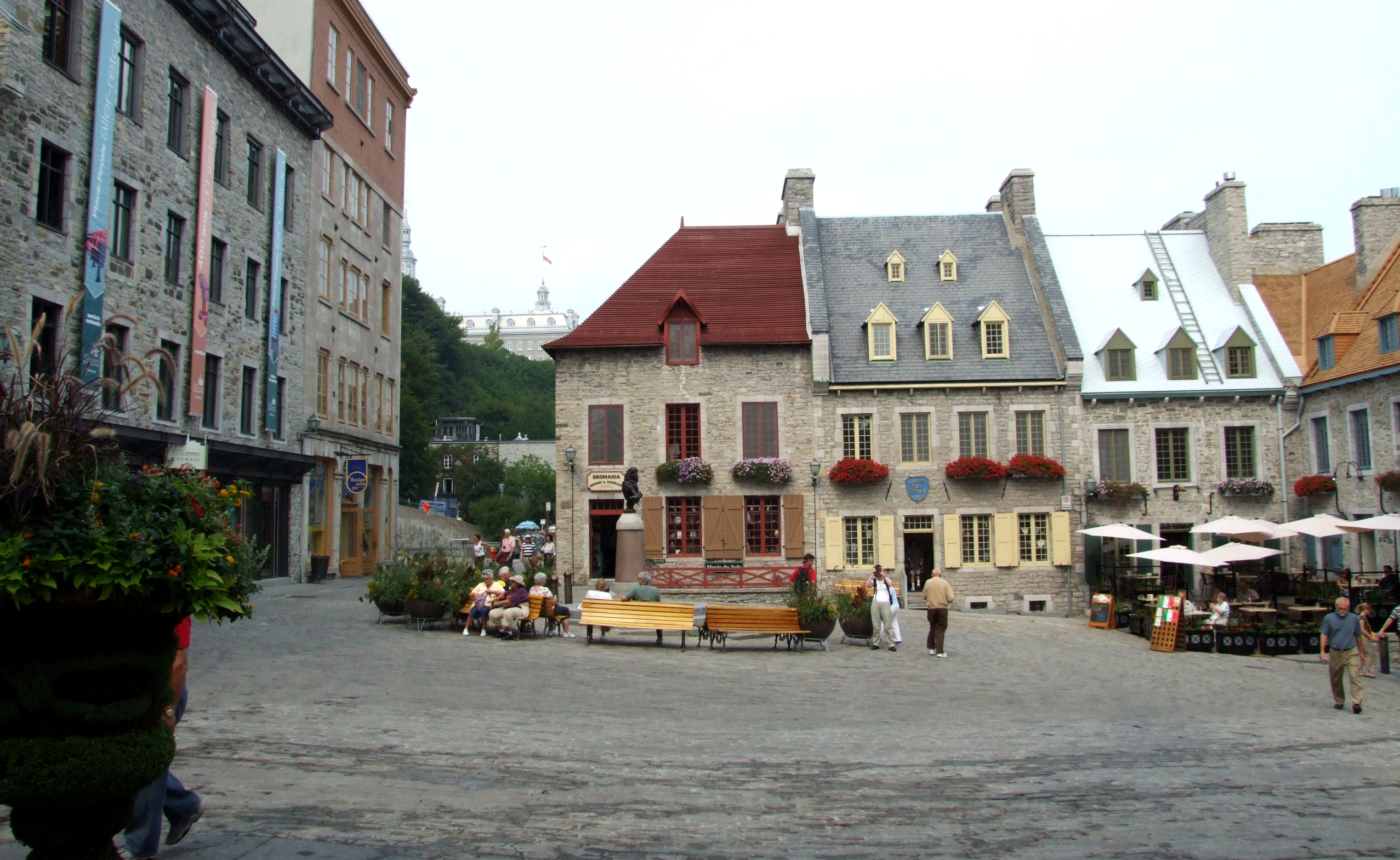 Quebec city, CANADA